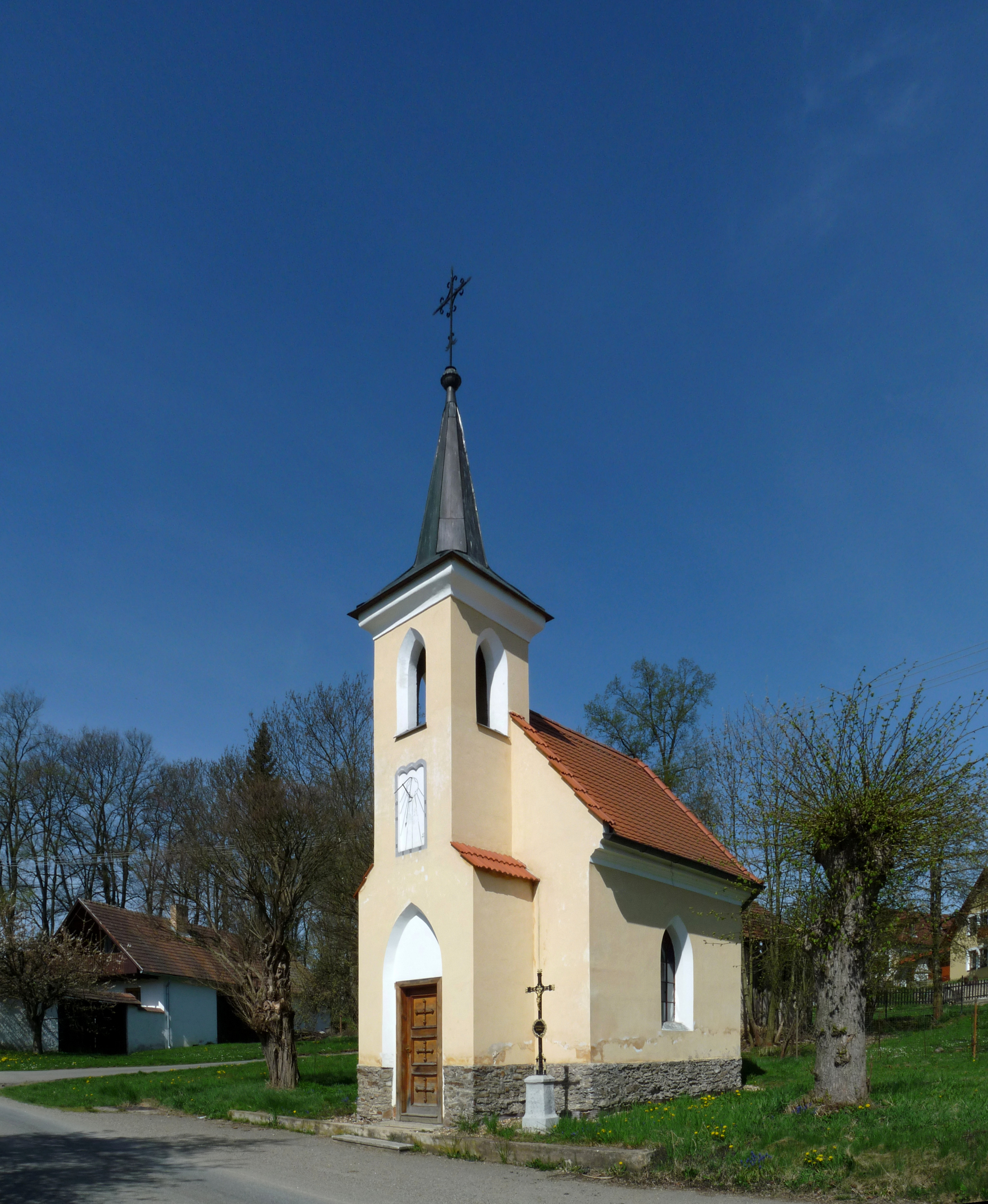 Chapel in the village of Milotičky, part of the town of Červená Řečice, Pelhřimov District, Vysočina Region, Czech Republic.